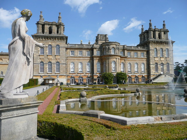 Blenheim Palace, Woodstock, Oxon. Blenheim Palace is the home to the eleventh Duke of Marlborough and the birthplace of Sir Winston Churchill. The west front gives on terraced gardens and statuary.